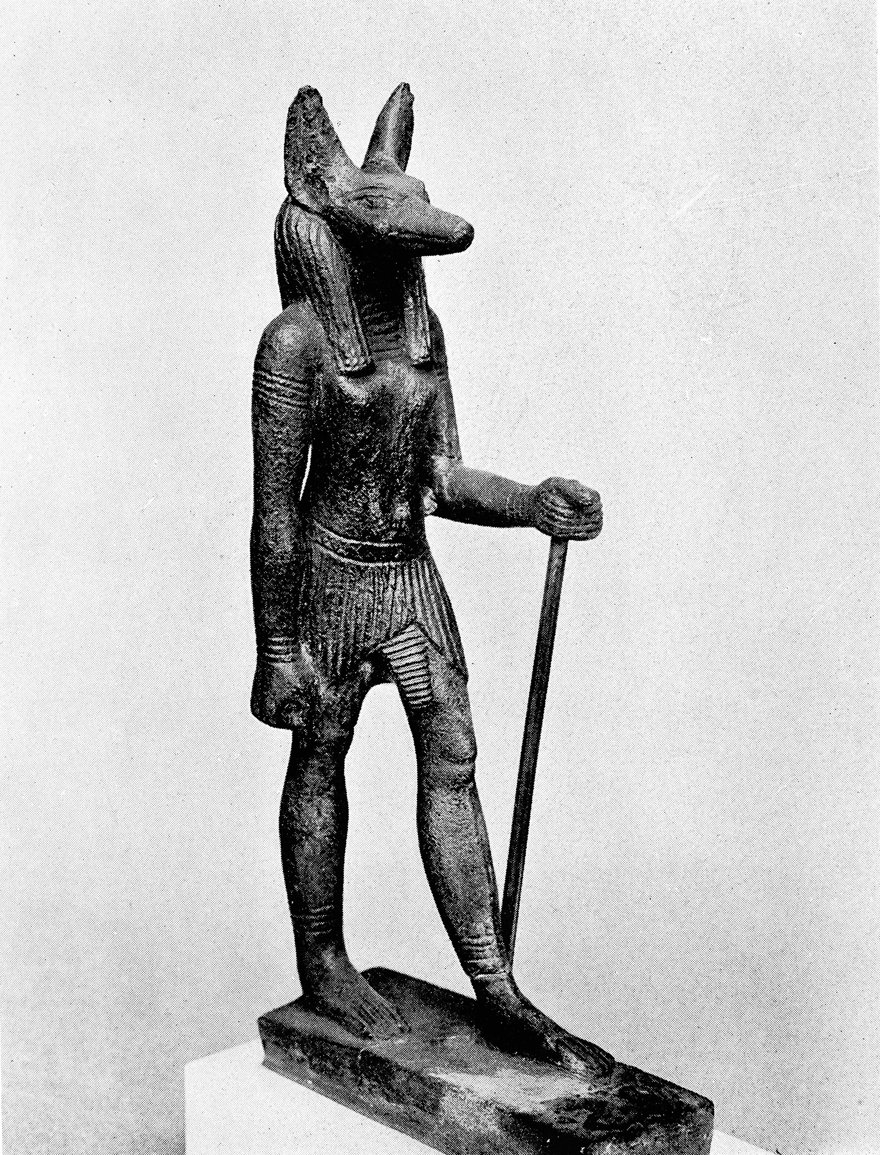 Anepu, apothecary of the gods of Ancient Egypt, statuette. General Collections Keywords: Deities